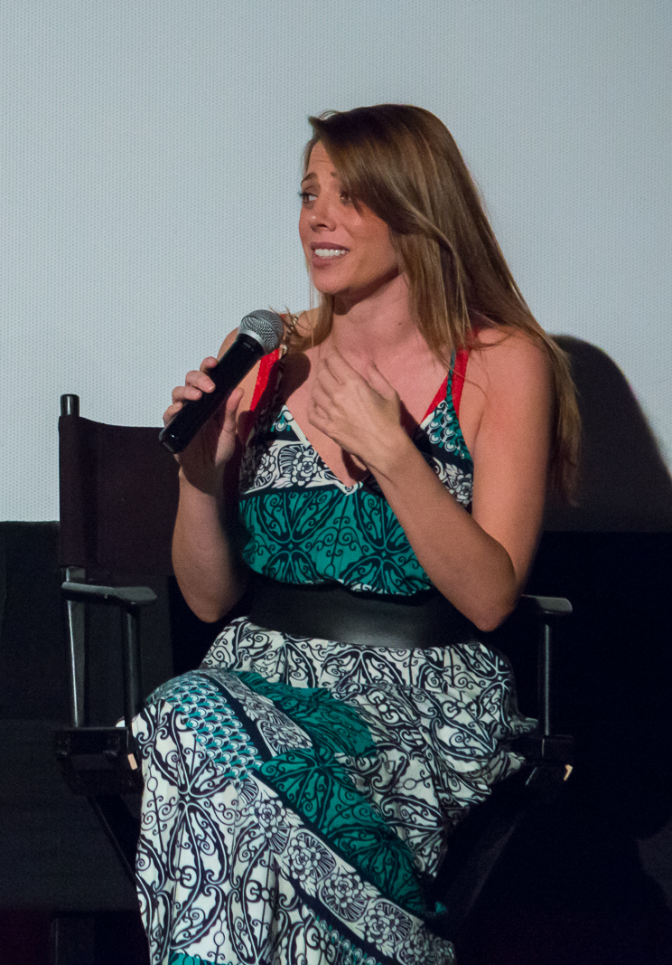 Stacey Oristano at the ATX TV Festival 2015 for the TV show Bunheads